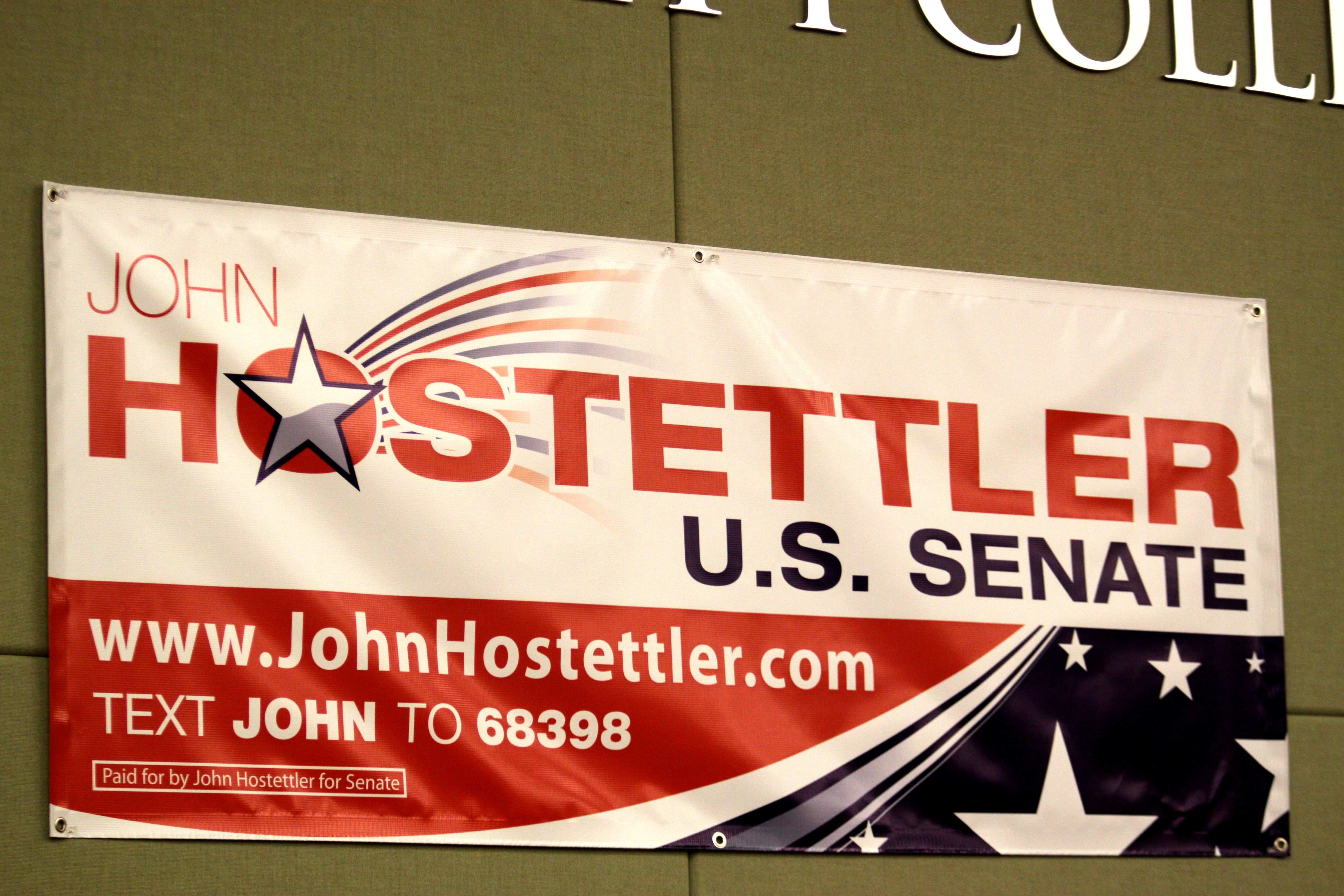 A sign for United States Senate candidate John Hostettler at a townhall at Ivy Tech in Evansville, Indiana.